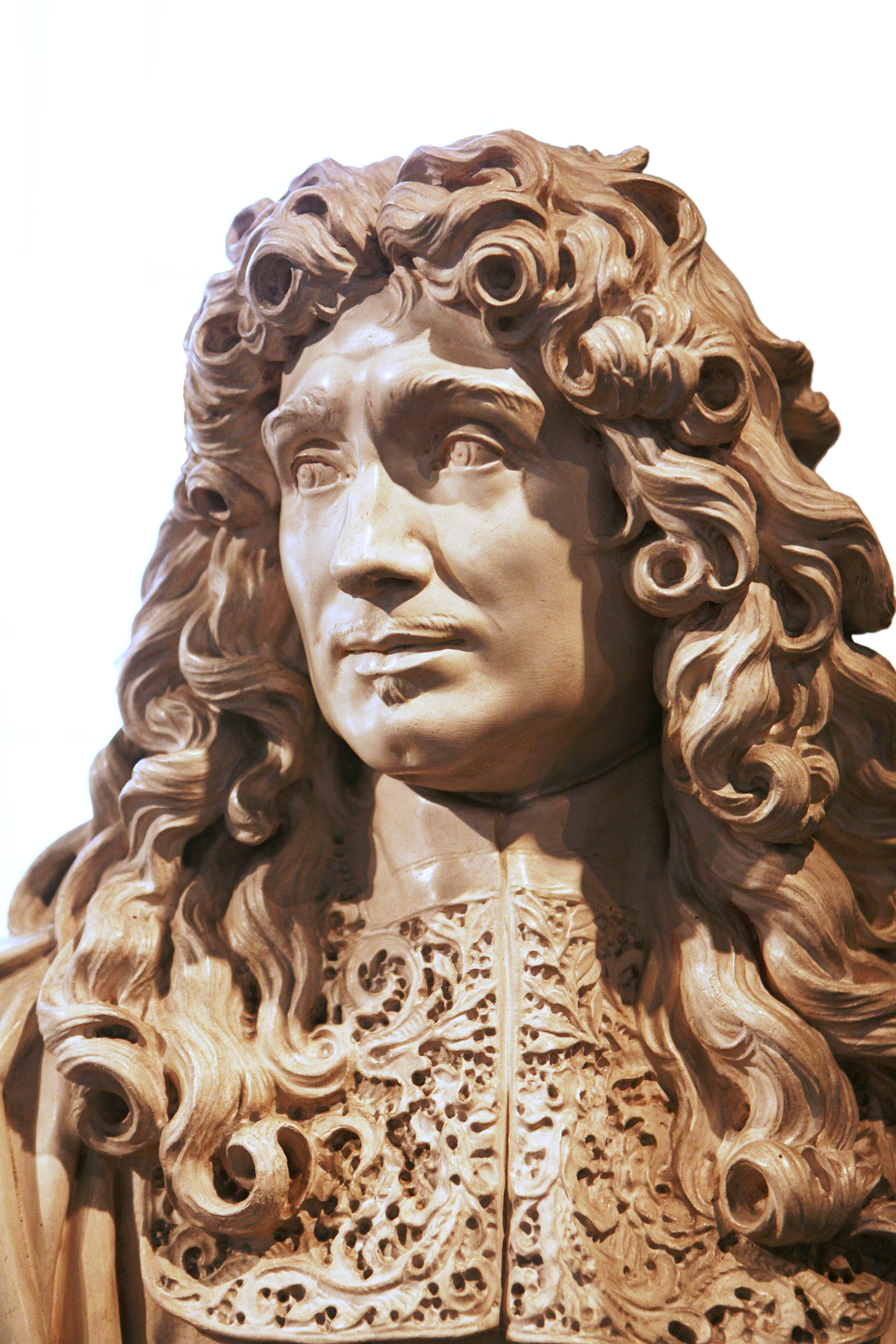 Jean-Baptiste Colbert. Reproduction of a bust made in 1677 by Antoine Coysevox; the reproduction is on display at Toulon naval museum, the original, at the Louvre.